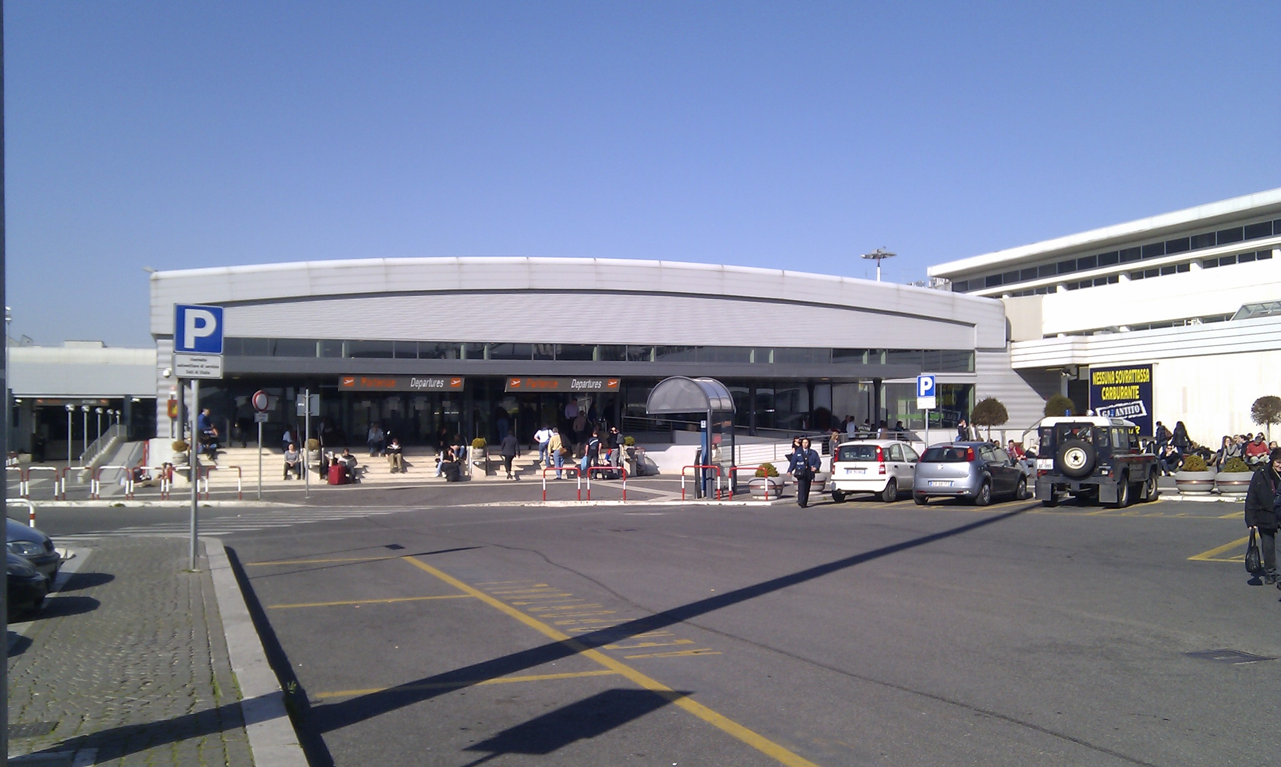 Exterior of Rome Ciampino Airport